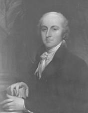 From the U.S. Senate historical office